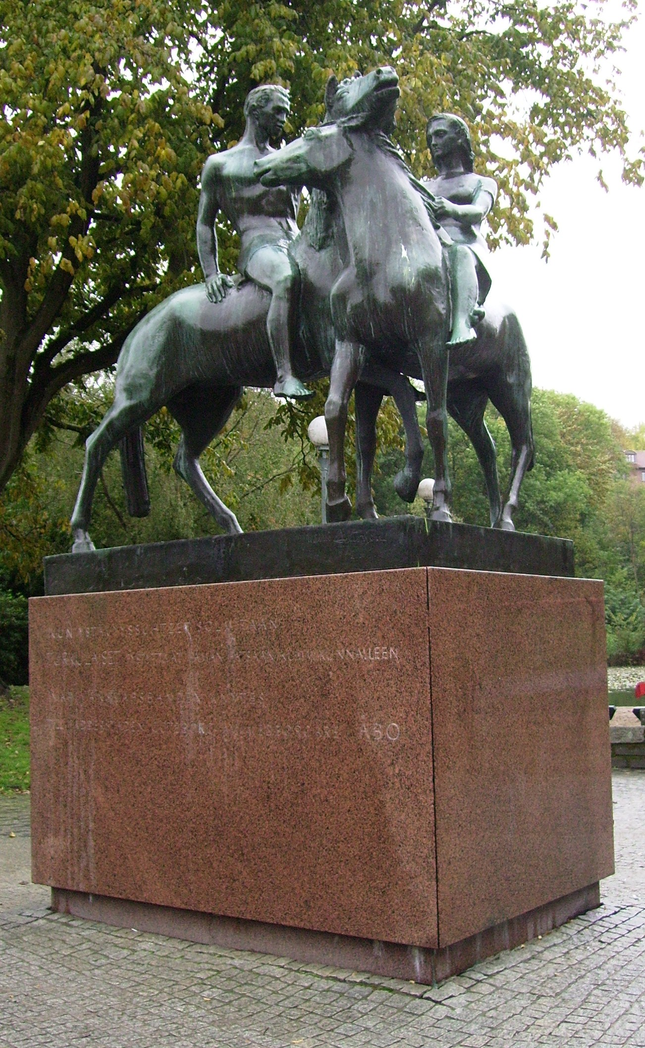 Picture of statue Kun ystävyyssuhteet solmitaan in Gothenburg